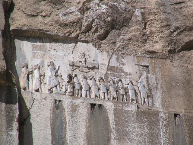 Darius I the Great's inscription. Possibly an influence in the stele series for the Ptolemies, III, IV, and V-(V for the Rosetta Stone); Ptolemy II also had a Victory Stele, though not bilingual.